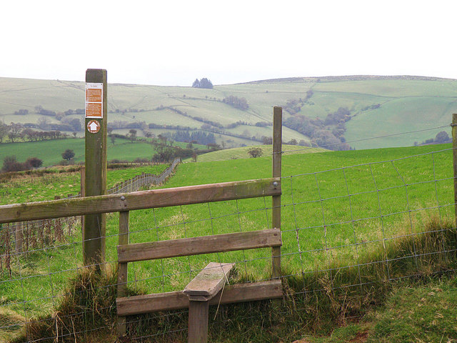 Stile to Epynt Stile for a permissive footpath that leads from Cwm-Llythin to Epynt.